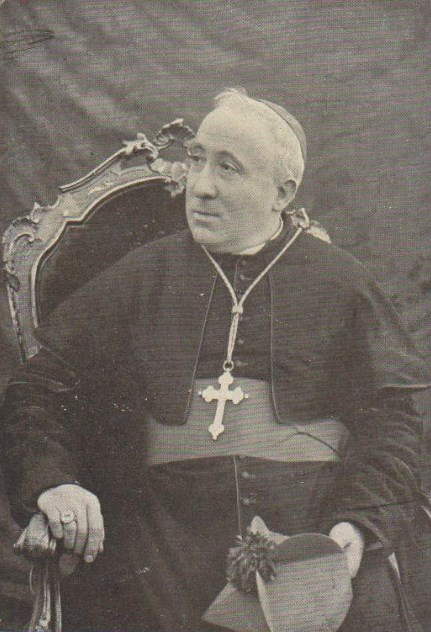 Aristide Cavallari, patriarch of Venice